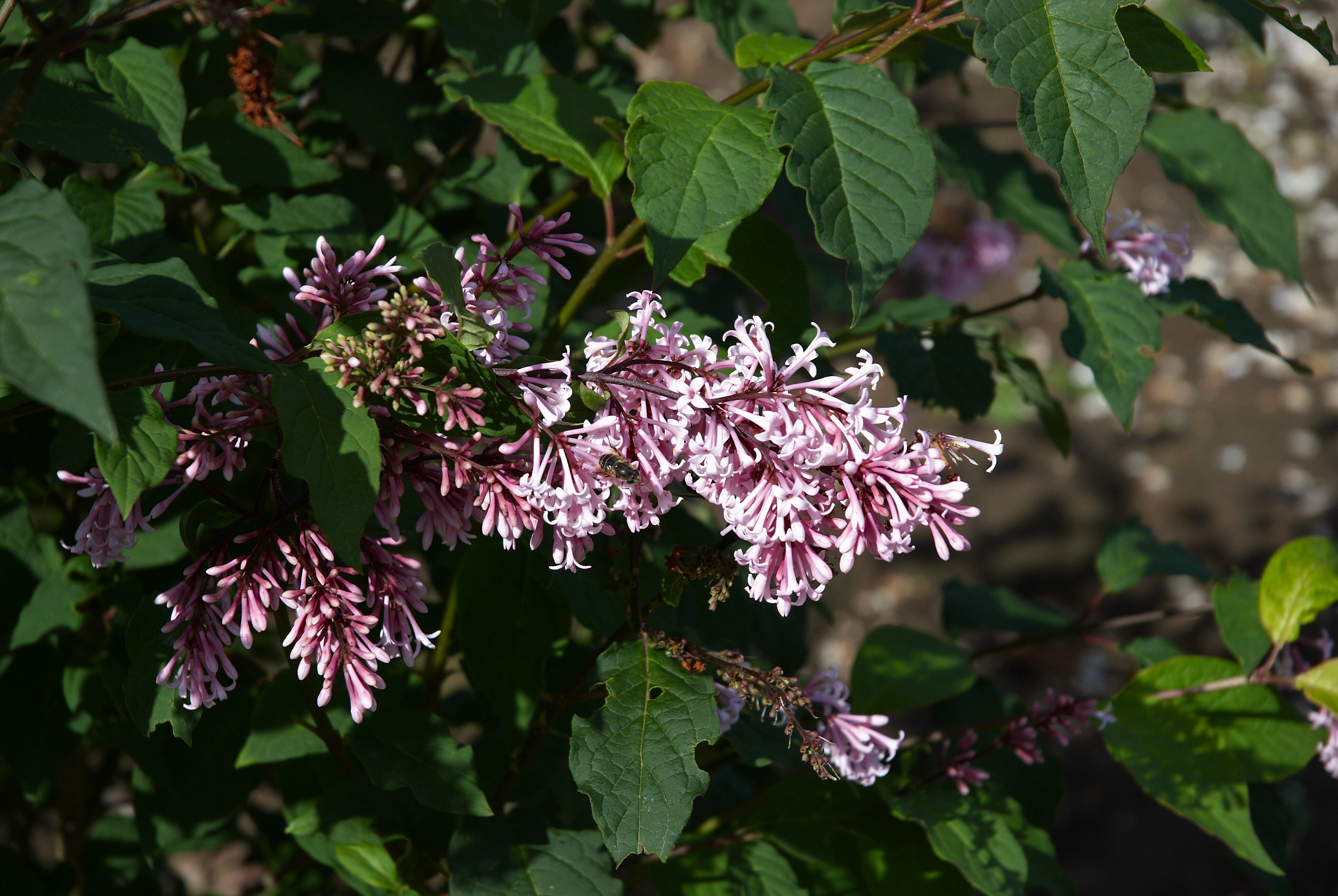 Syringa × josiflexa 'Bellicent'. Photo taken in an arboriculture in Vossem, Belgium